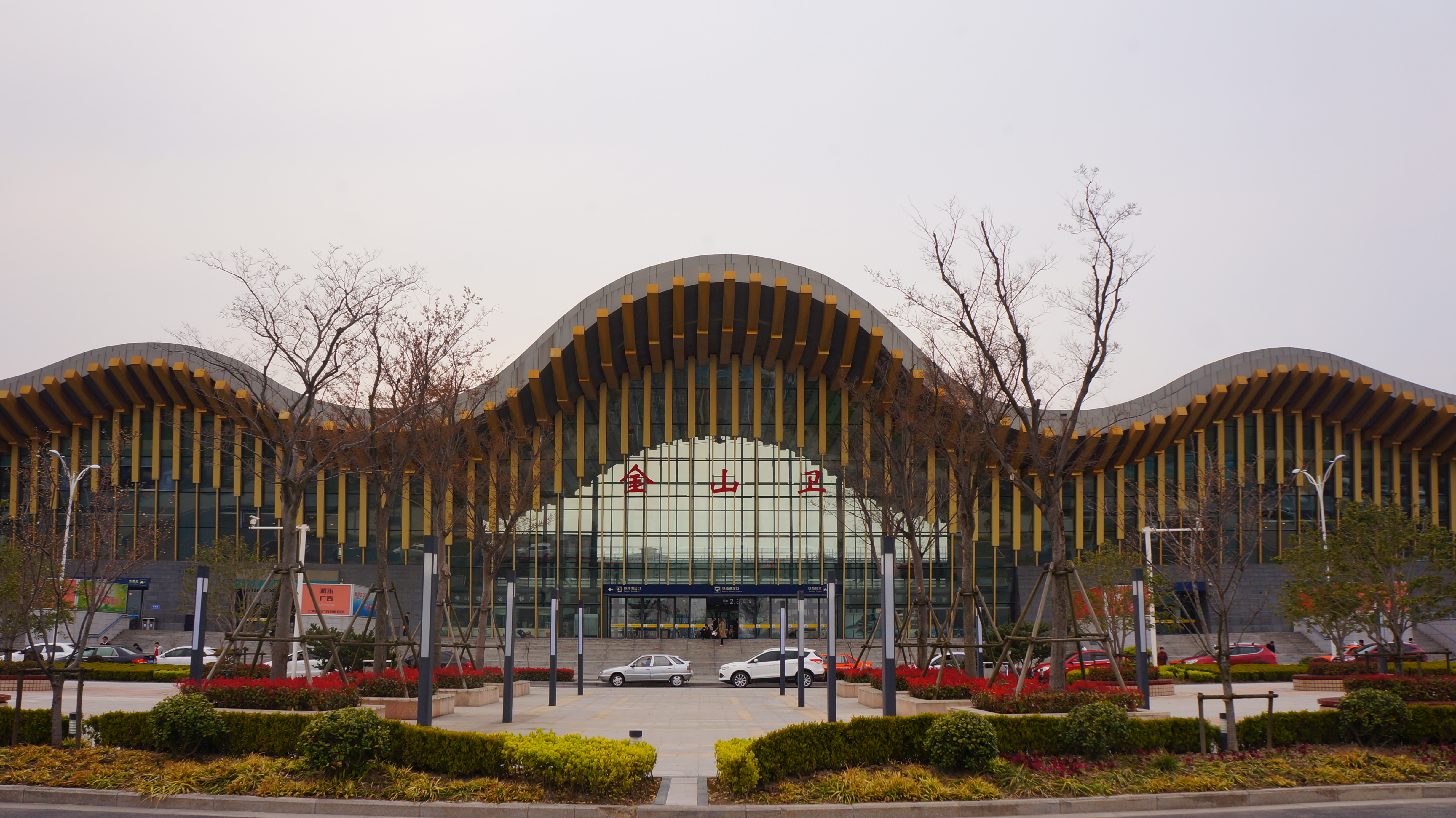 201603 Southern square of Jinshanwei Station